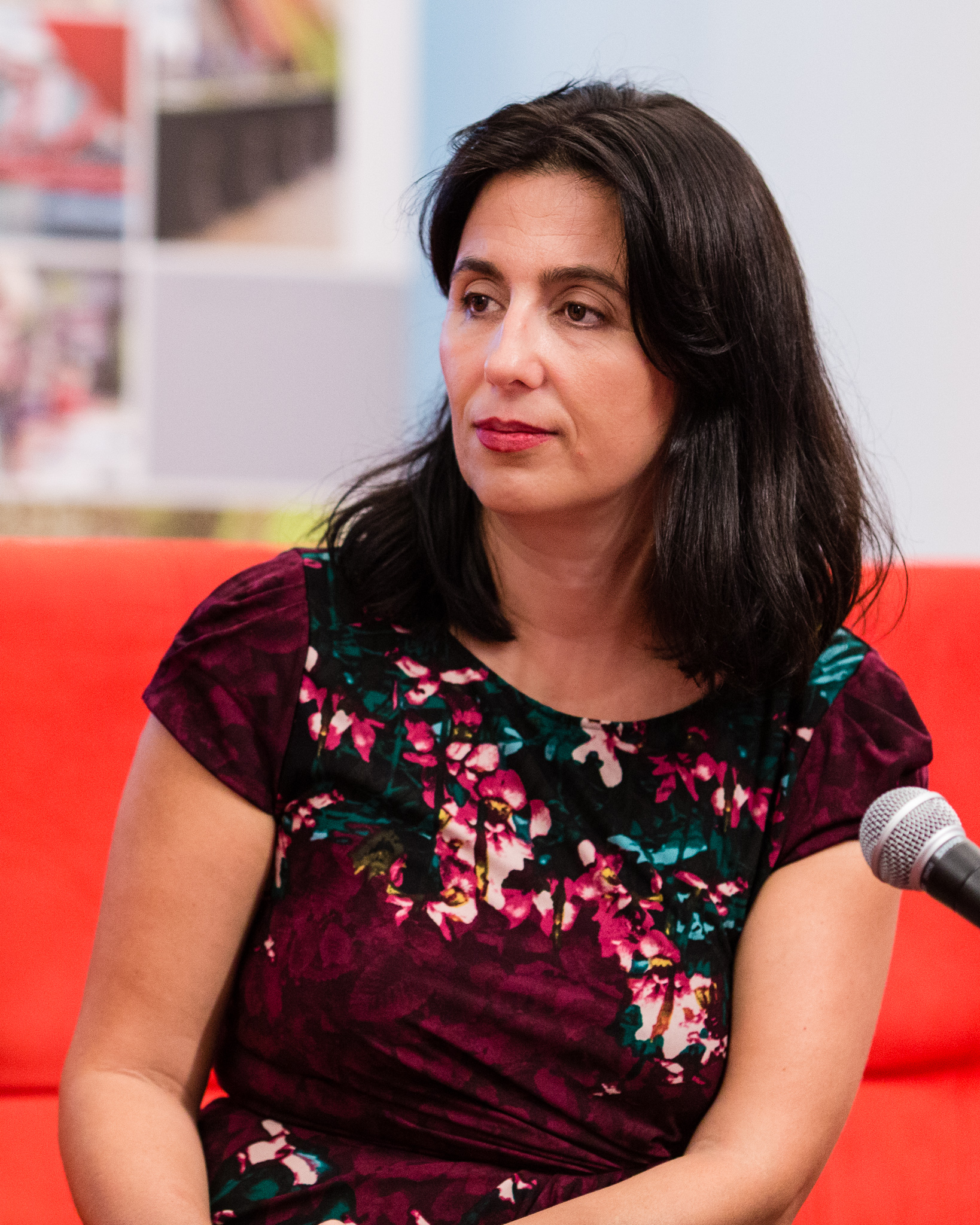 Şebnem İşigüzel on Authors’ Reading Month 2018, Wrocław, Poland